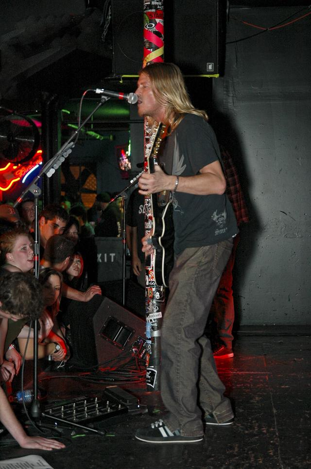 This is a picture of Puddle of Mudd's Wes Scantlin to be used in the infobox on the Puddle of Mudd page.